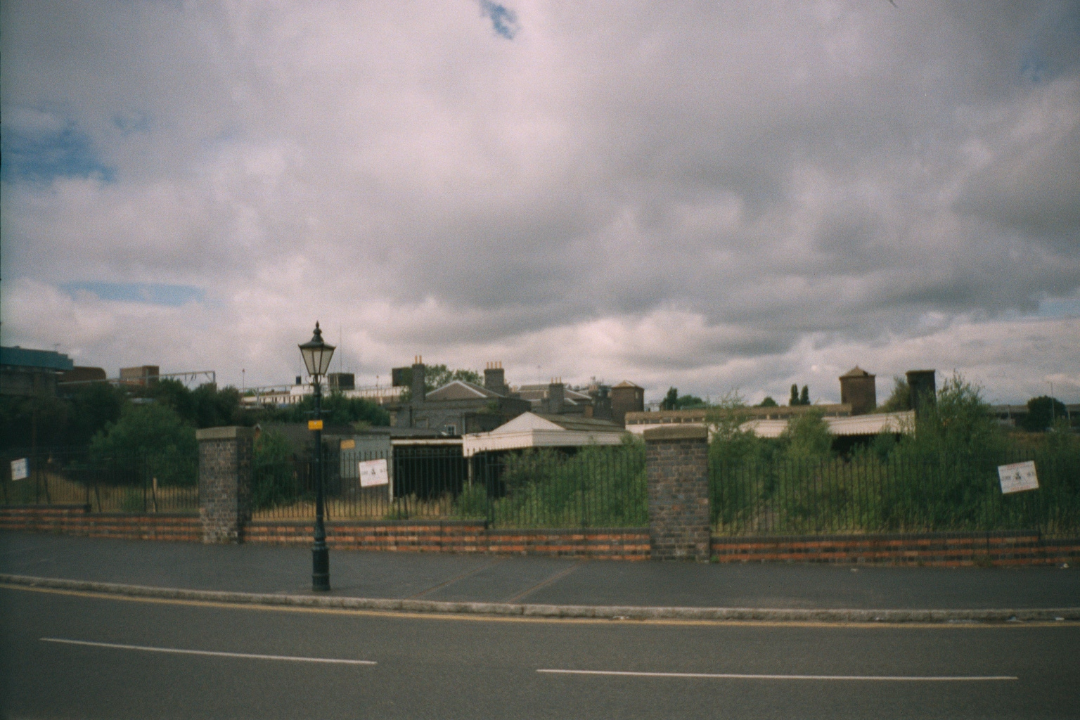 I took this picture of Wolverhampton lower level station my self in the year 2000 and donate it to the public domain.